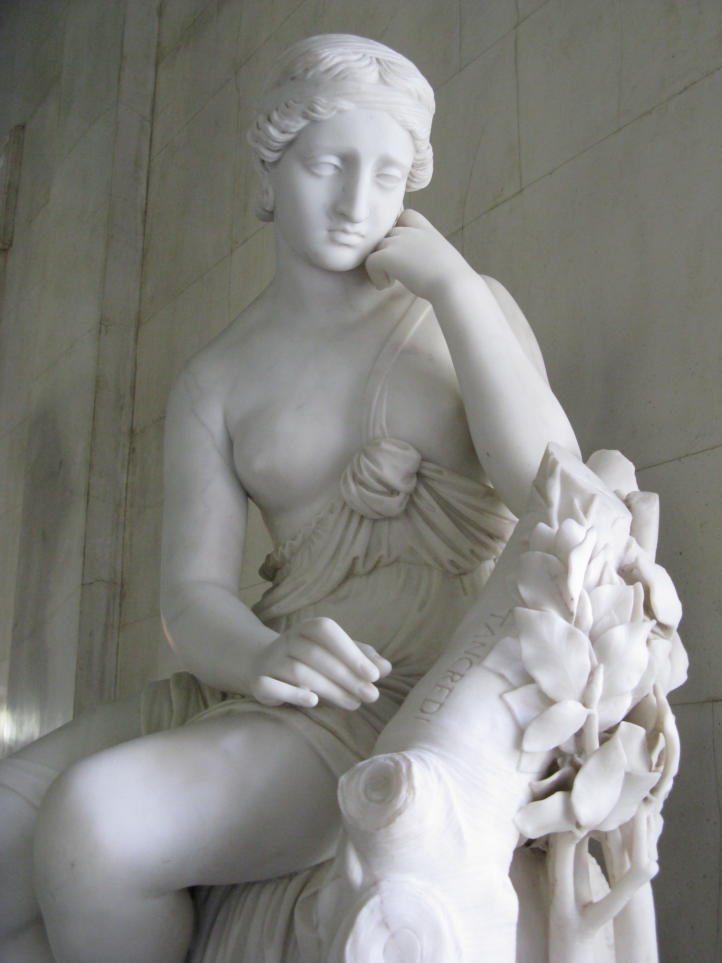 Erminia awaiting by Rinaldo Rinaldi (1793-1873) at the Hermitage. (Erminia is a character in the epic poem La Gerusalemme liberata by Torquato Tasso).